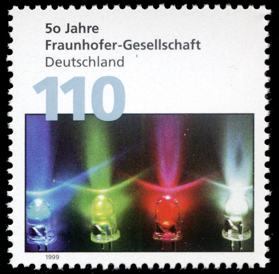 Stamp from Deutsche Post AG from 1999, 50th anniversary of Fraunhofer Society